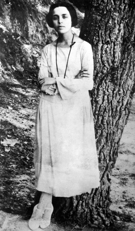 The Greek poet Maria Polydouri (1902-1930). From the ELIA archives.